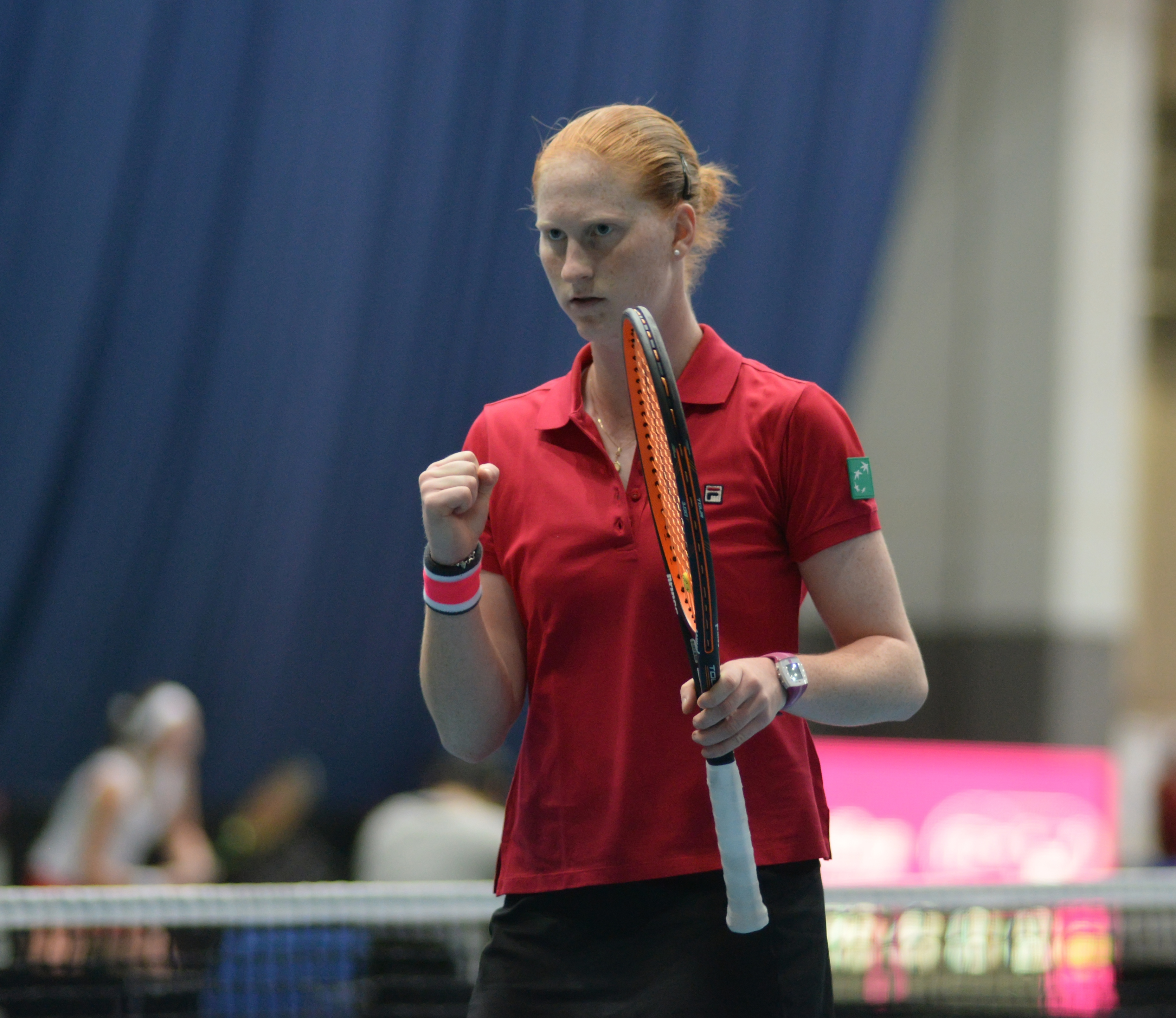 Alison Van Uytvanck at the 2015 Fed Cup